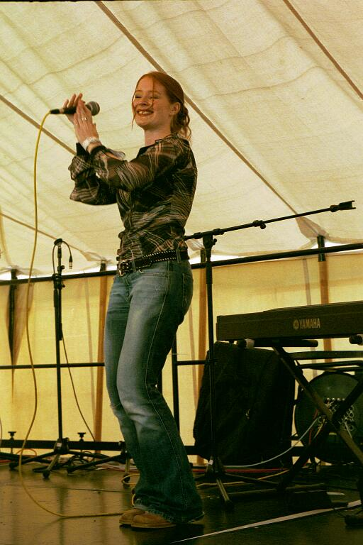 Nicki Rogers performing at the H3 Festival in 2003